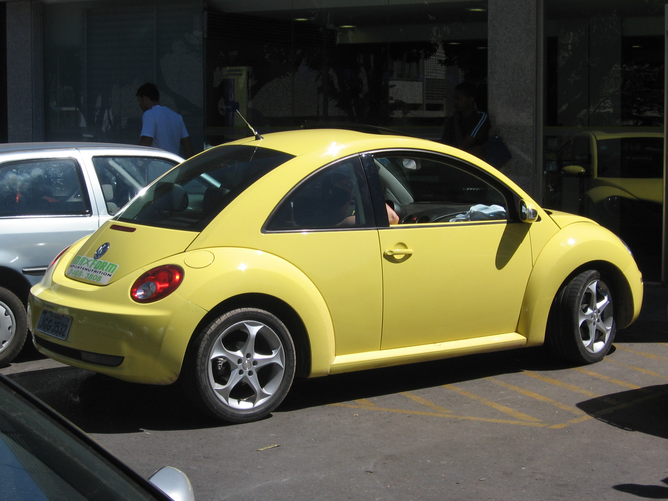 Yellow New Beetle